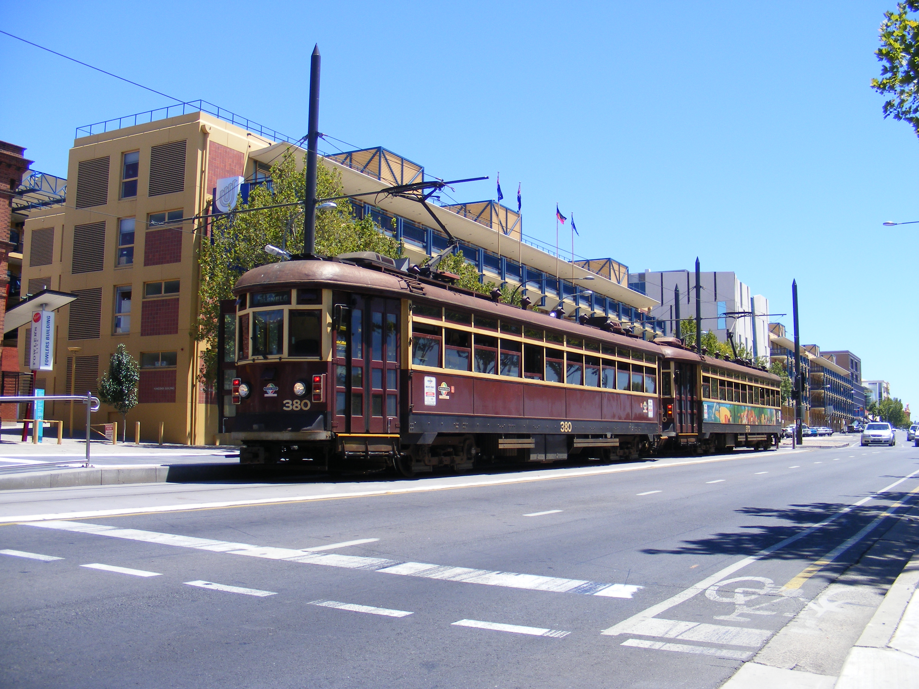 Refurbished H type trams 370 and 380 seen at the former City West tram terminus on North Terrace. The line was later extended to the Adelaide Entertainment Centre with work starting in April 2009. Photo taken January 2009.